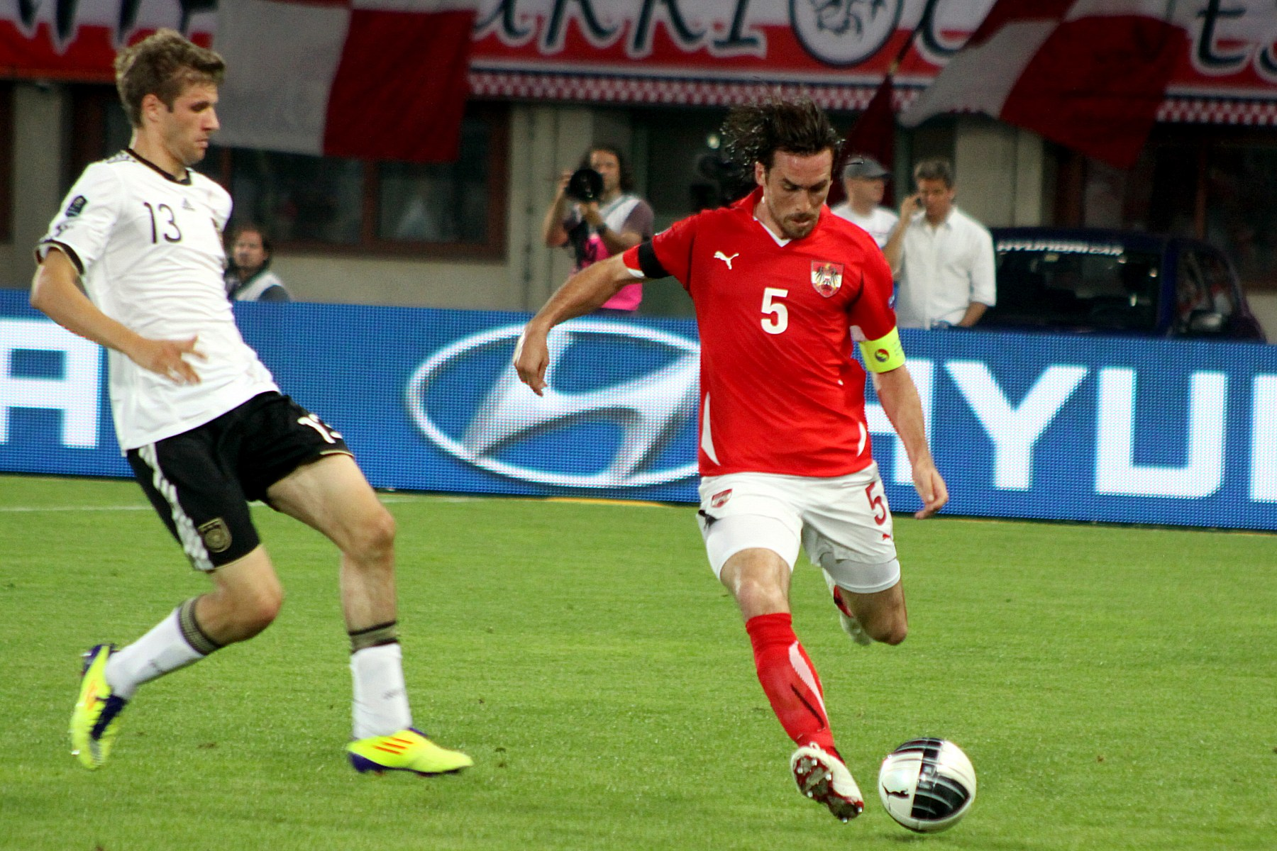 Qualifying for the UEFA Euro 2012 Austria (red shirt) vs. Germany (white Shirt) 1:2 (0:1) at 2011-06-03 in Vienna (Ernst-Happel-Stadion) — The photo shows (fron left to right): Thomas Müller (FC Bayern München), Christian Fuchs (1. FSV Mainz 05).